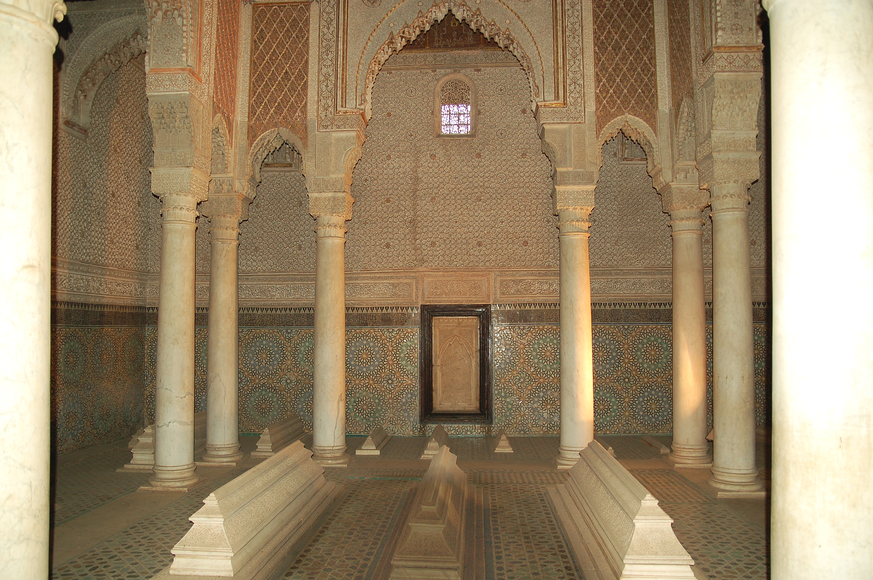 Maroc Marrakech city Saadiens tombs